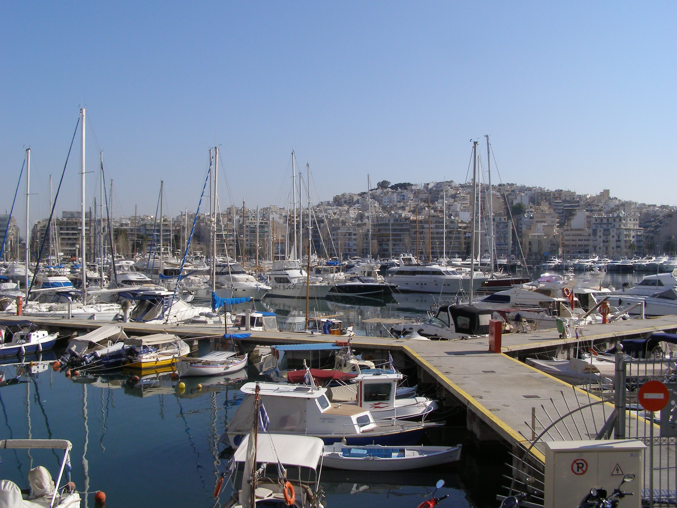 Piraeus - marina Zea